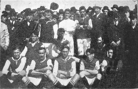 Argentine football club Ferro Carril Oeste in 1907, wearing the maroon & lightblue jersey based on English team Aston Villa.